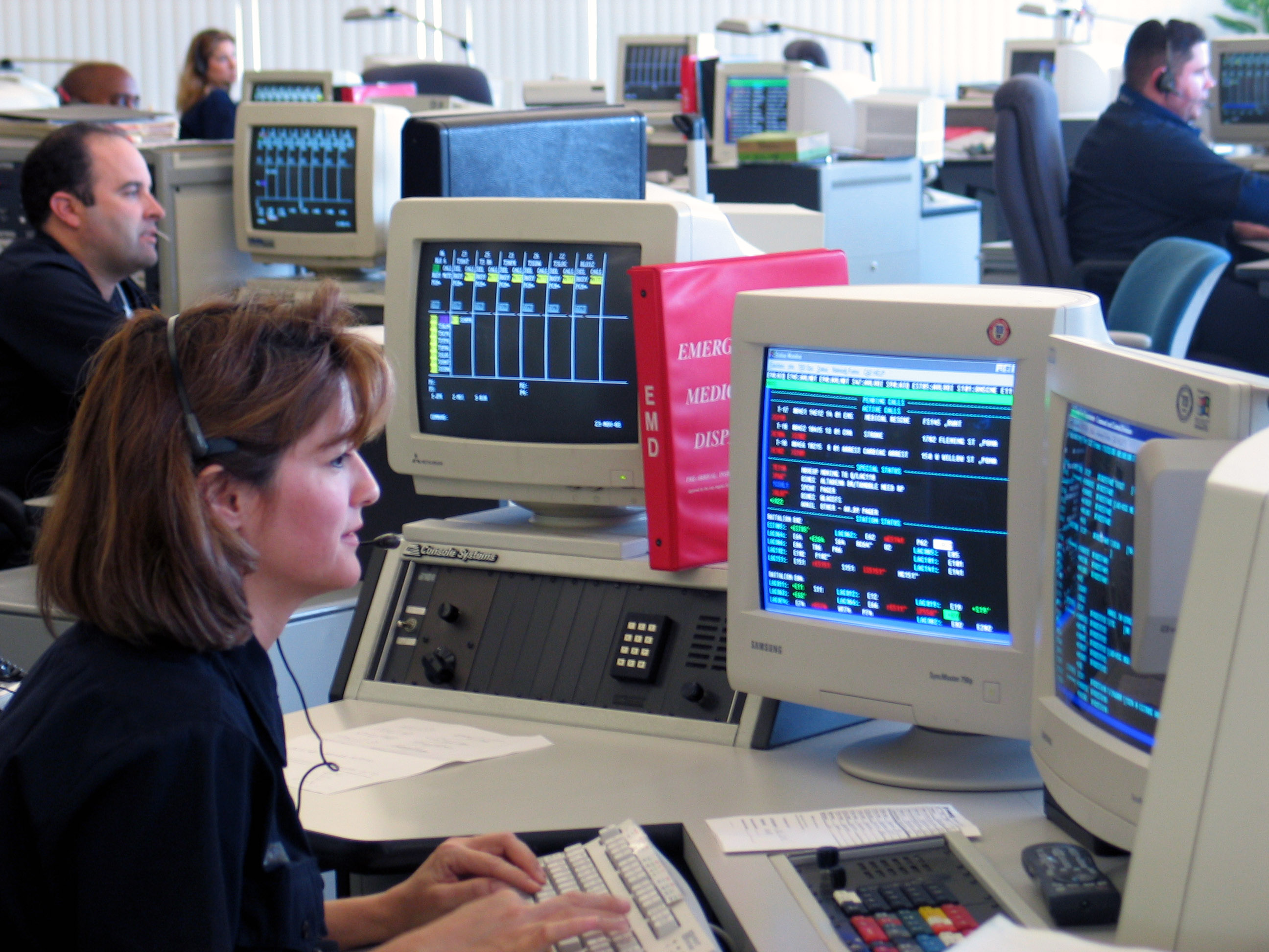 Los Angeles County, CA, November 21, 2003 -- Dispatchers and call takers with the L.A. County Fire Department answer 911 calls from the public. Photo by: Jason Pack DHS/FEMA News Photo